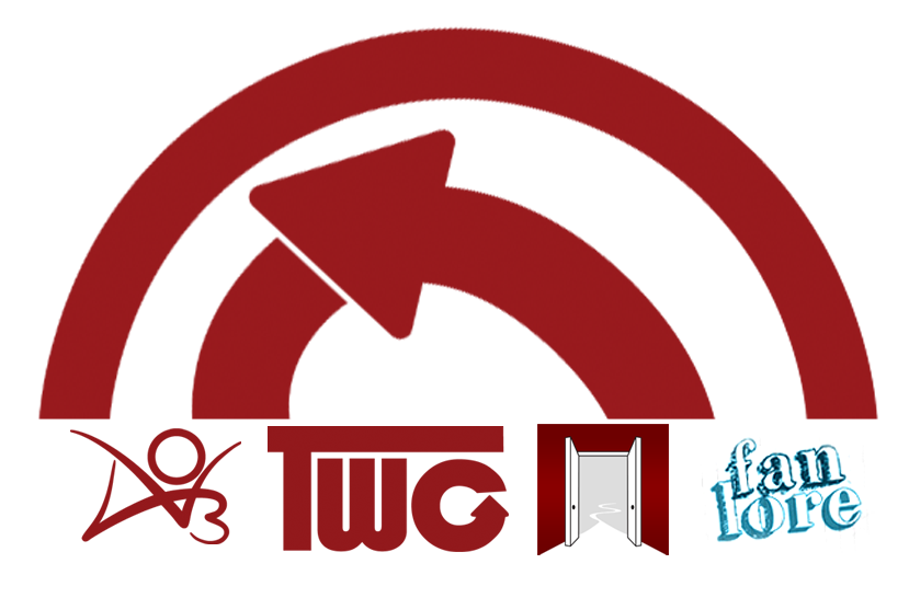 Graphic banner of Organization for Transformative Works (OTW) depicting the icon of OTW as an umbrella over its projects's icons: AO3 (Archive of Our Own), TWC (Transformative Works and Cultures), Open Doors, and Fanlore.